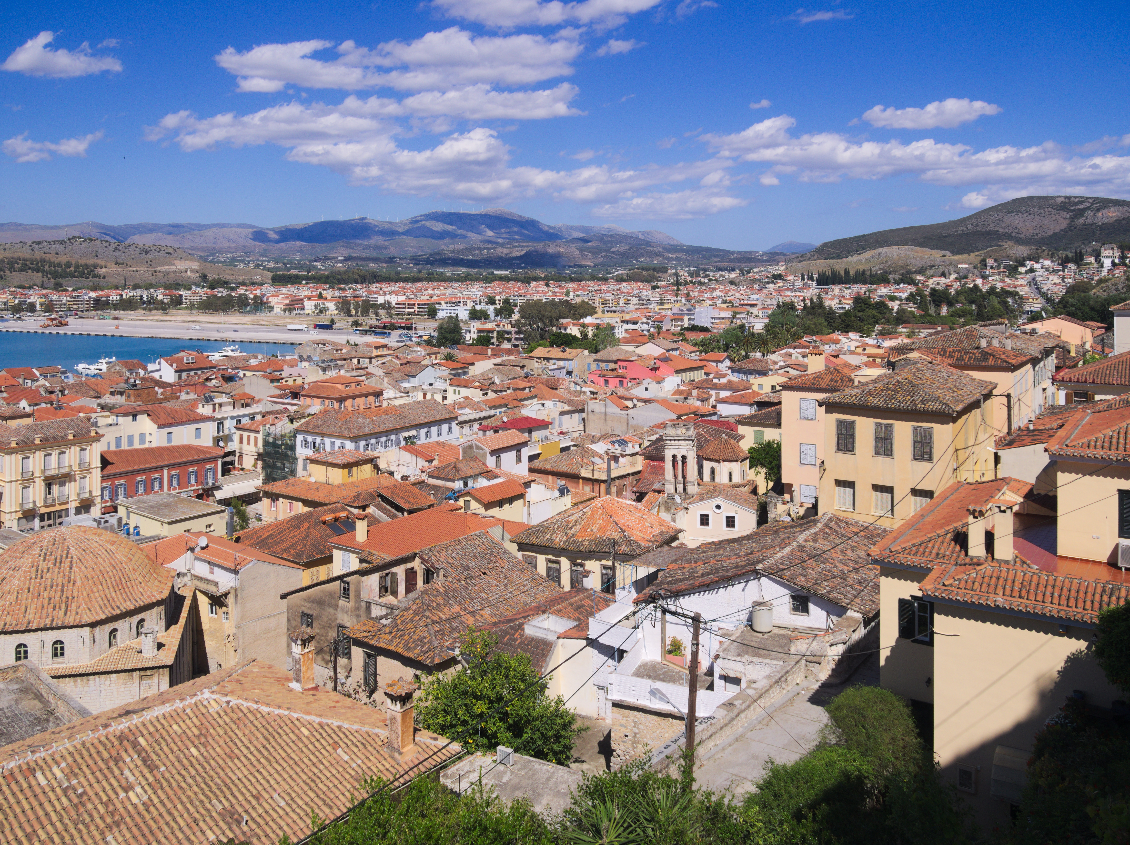 View of Nafplion from Sagredo gate, Akronafplia.